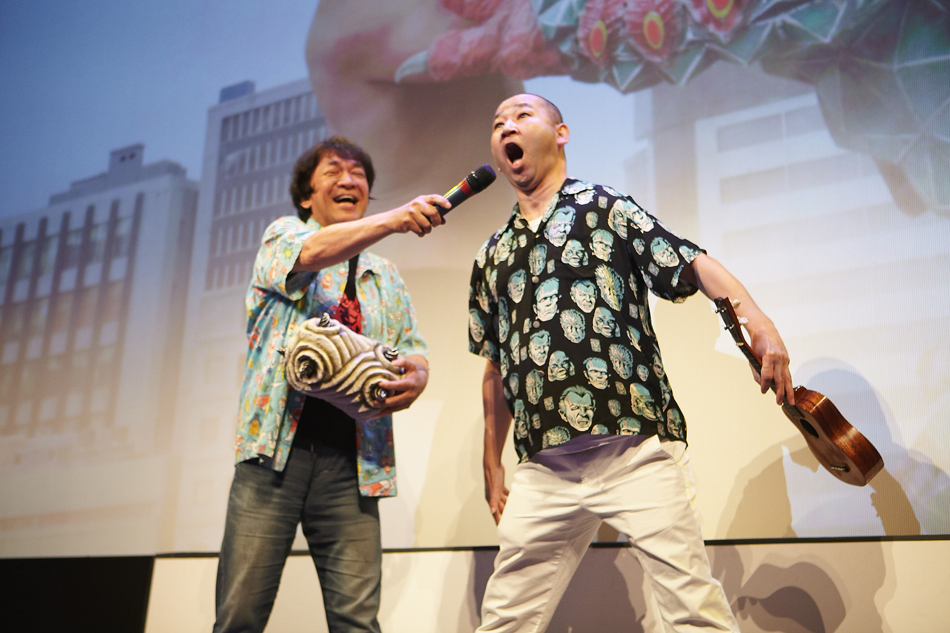 Director Minoru Kawasaki (河崎実 Kawasaki Minoru), on the left holding the microphone, and Eiji Ukulele, at the Horror and Fantasy Film Festival Donostia Kultura (2016)